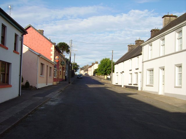 Feakle / An Fhiacail Very quiet village street.